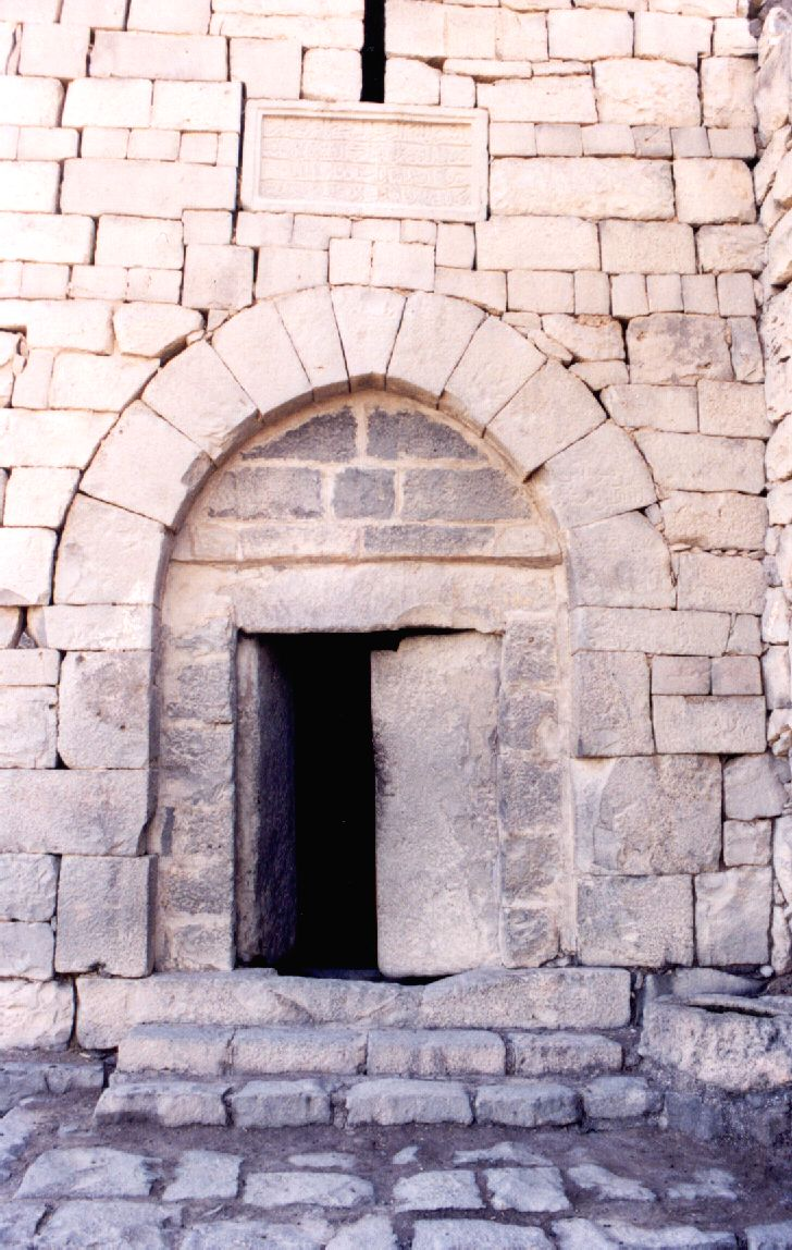 The stone door in one of the Desert Castles in Jordan: Qasr Al-Azraq. This castle is said to have been used as his headquarters by Lawrence of Arabia (so said the keeper). Although each of the leaves of this door weights about one metric ton (still so said the keeper), this door is quite easy to move, as it is lubricated by palm tree oil. The right-side leaf was closed specially for the photo by the author.